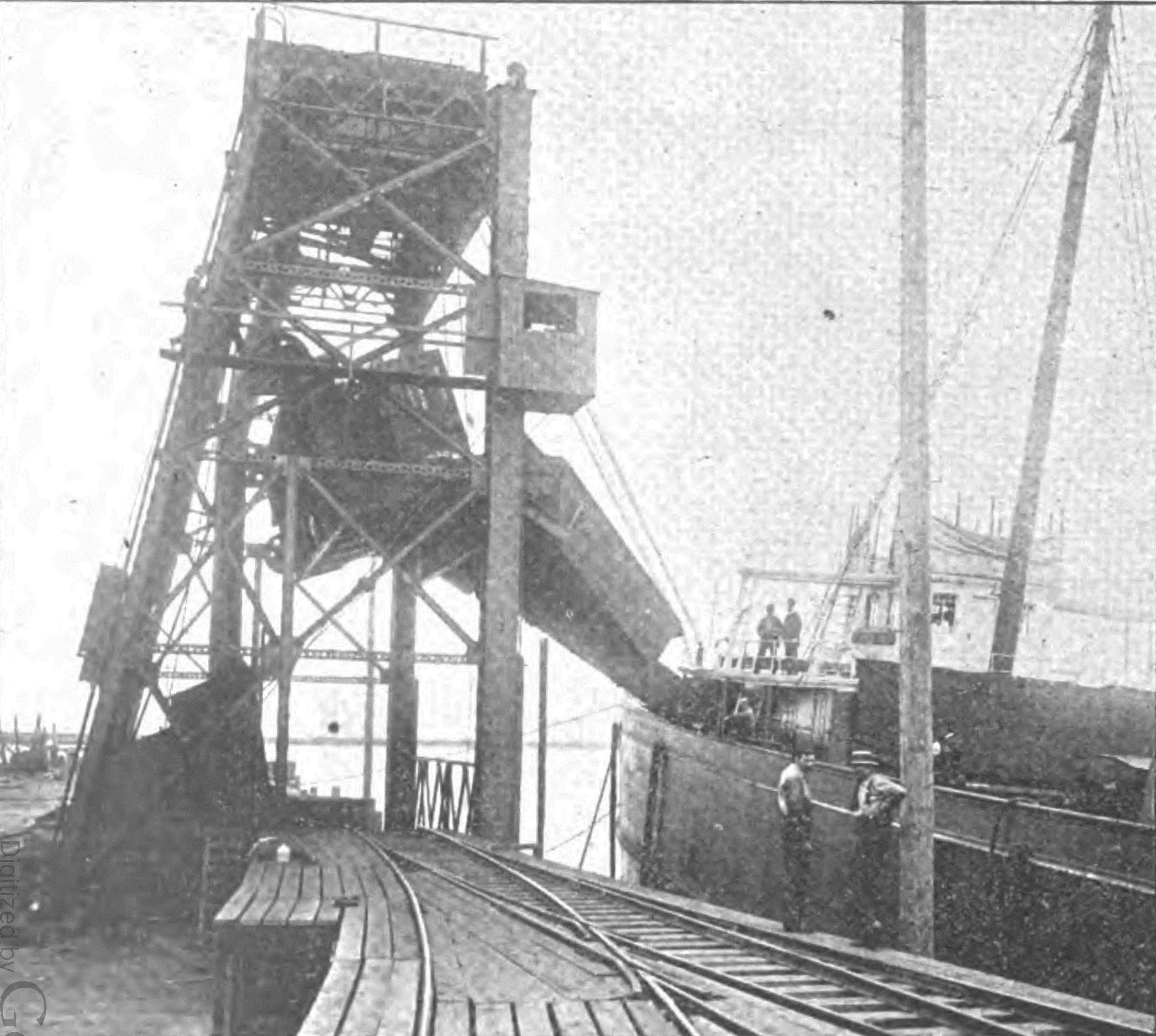 Riverbed Street freight dock of the Cleveland, Terminal and Valley Railway (formerly the Valley Railway) in Cleveland, Ohio, in the United States. In 1896, the CT&V built a second freight depot and docks on the Cuyahoga River. It was located on Riverbed Street NW, between Main Avenue and Cathan Avenue. The city of Cleveland, however, wished to widen the Cuyahoga River by 80 feet (24 m) at this point. The city and the railway came to an agreement whereby the city closed West River Street and give 80 feet (24 m) of land to the railroad. The 80 feet (24 m) of land on which the existing CT&V docks sat were removed to allow for the widened river channel. The railway agreed to pay an assessment of about $16,500 ($500,000 in 2017 dollars) for the improvements, and the city agreed to rebuild the CT&V's docks. The rebuilt docks opened in 1897. They featured a McMyler rotary car dumper, which was capable of automatically dumping 30 hopper cars of coal an hour. A McMyler rotary hoist transferred coal from the docks into the holds of steamships, which used the coal for fuel.